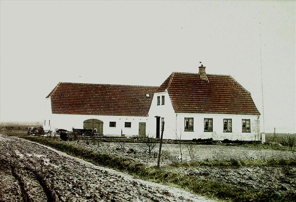 One of the first smallholdings consturcted on land from the Lindersvold estate at Faxe, Denmark